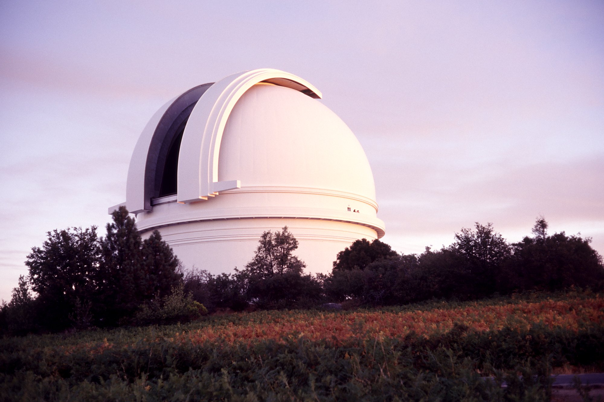 The art deco dome of the Hale Telescope at Palomar Observatory, opening at dusk